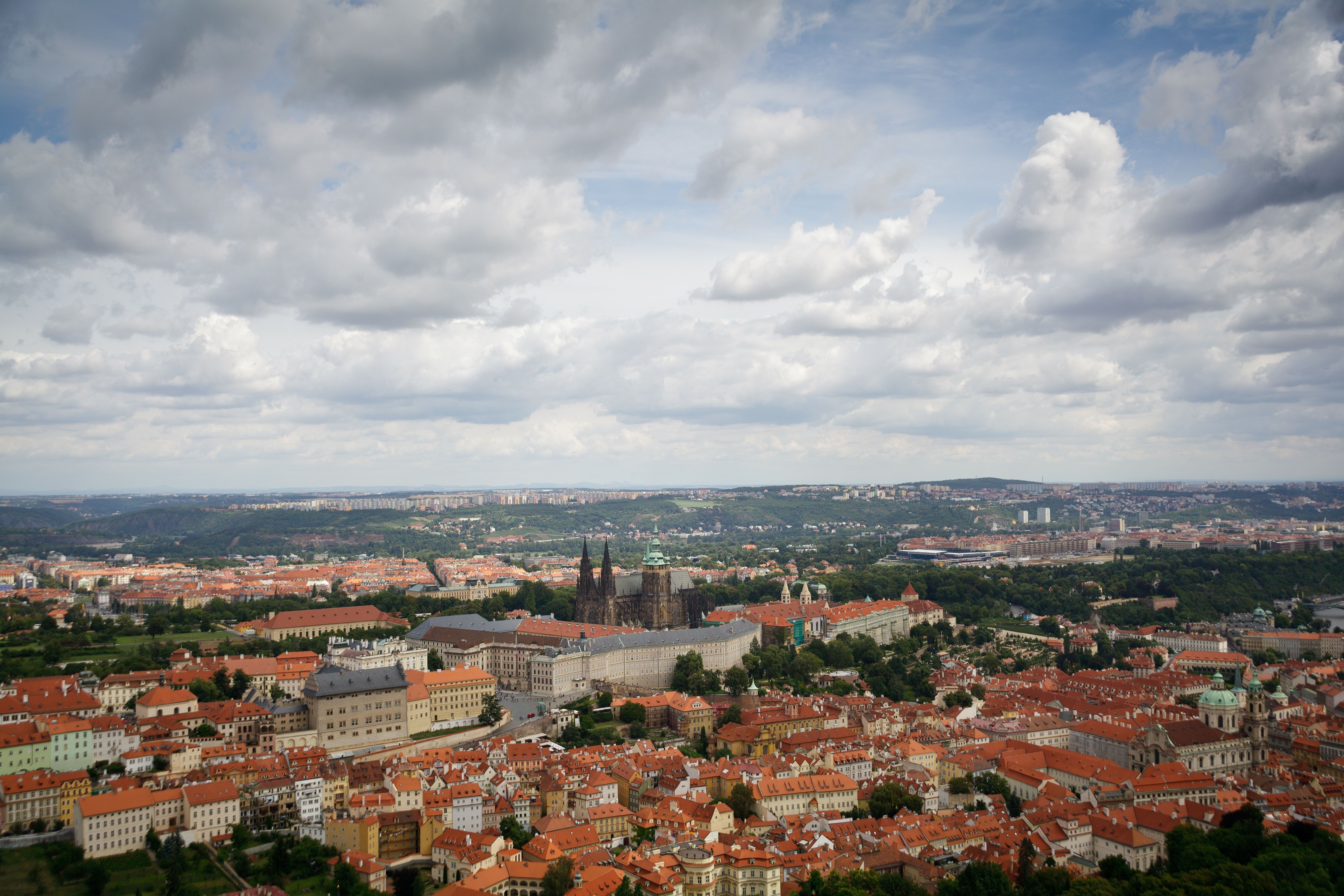 Prague 1, Czech Republic